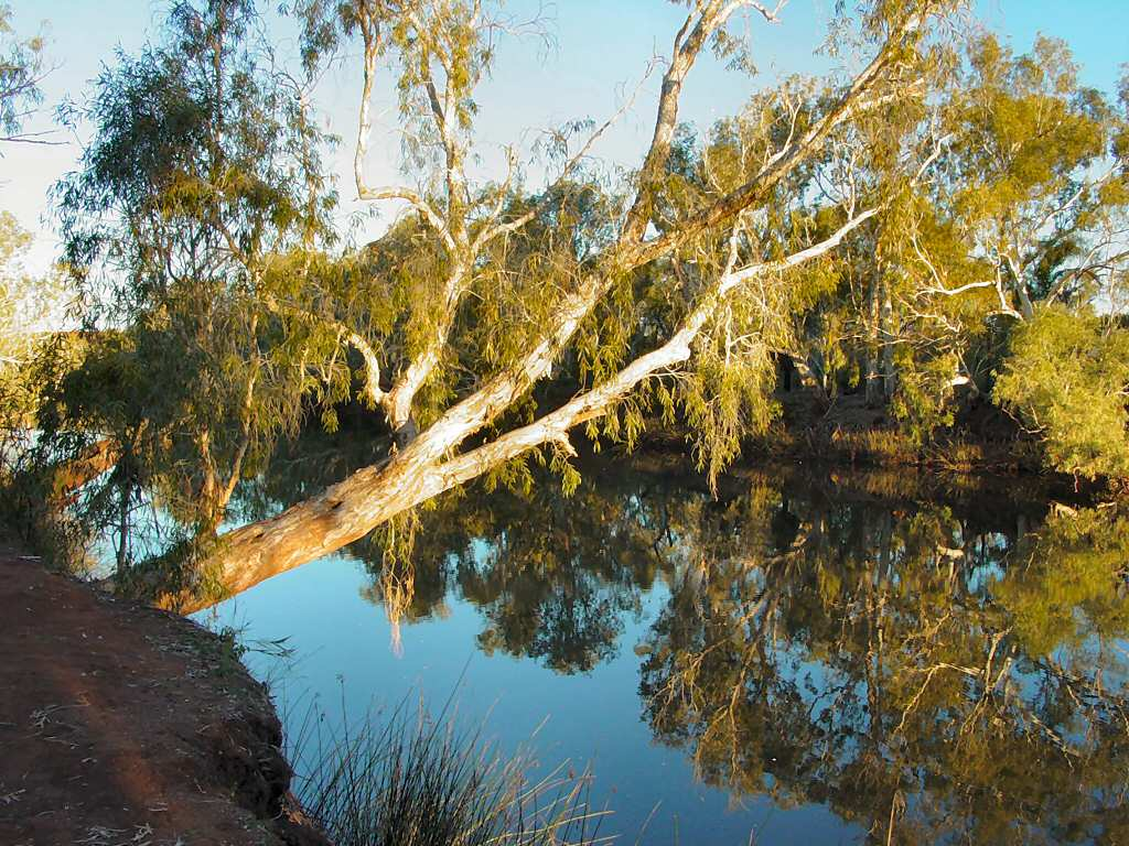 Photo taken and supplied by Brian Voon Yee Yap. Crossing Pool.